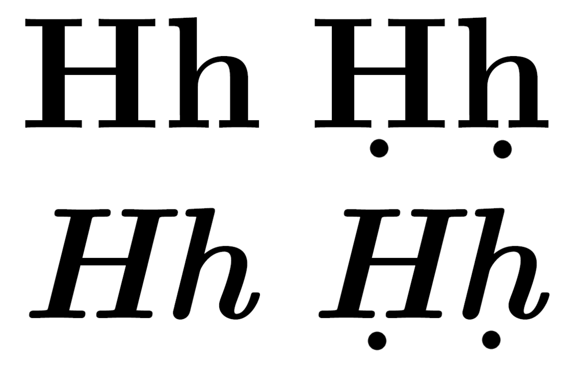 Asturian characters for h and ḥ